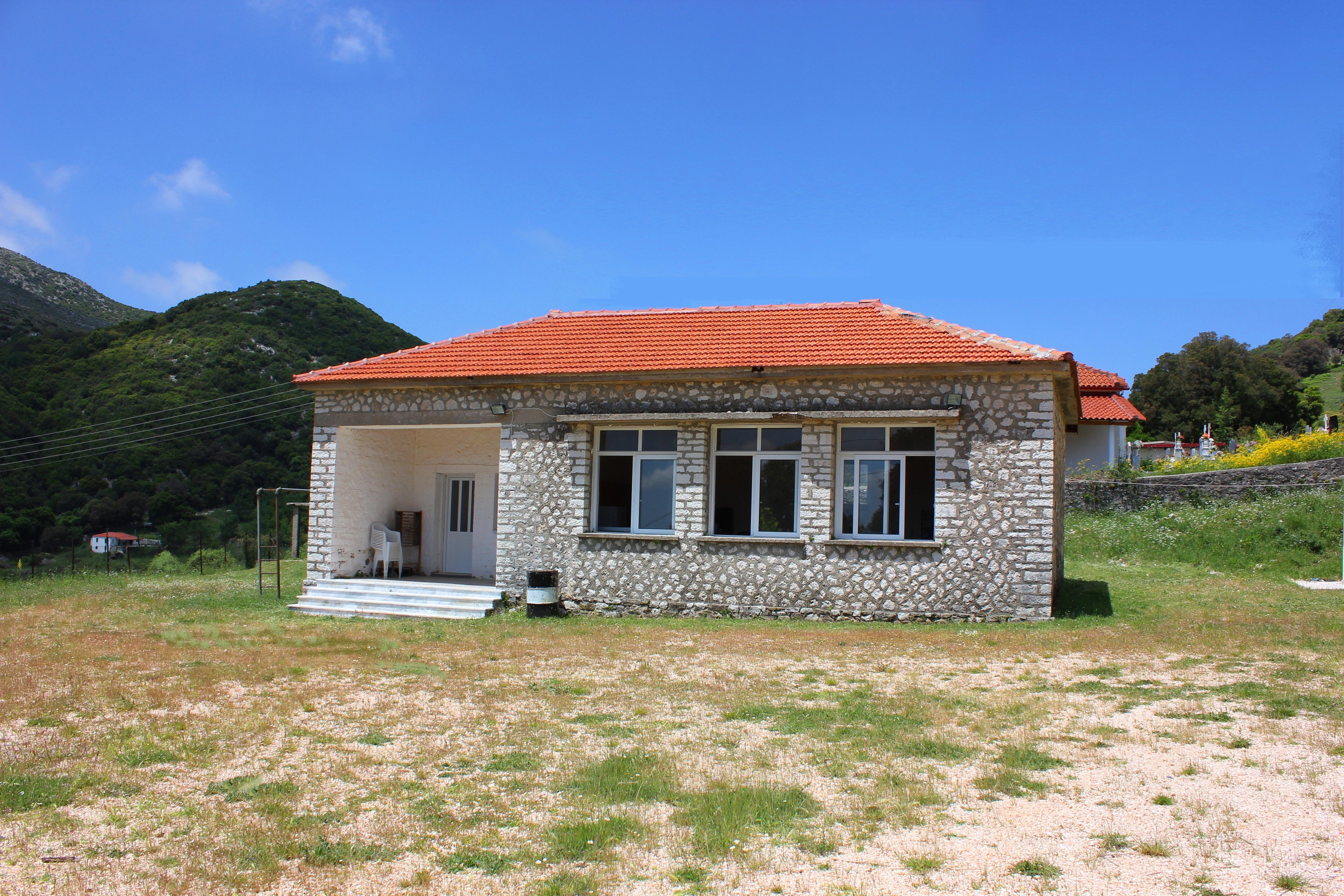 School of Ano Skafidoti, Preveza, Greece